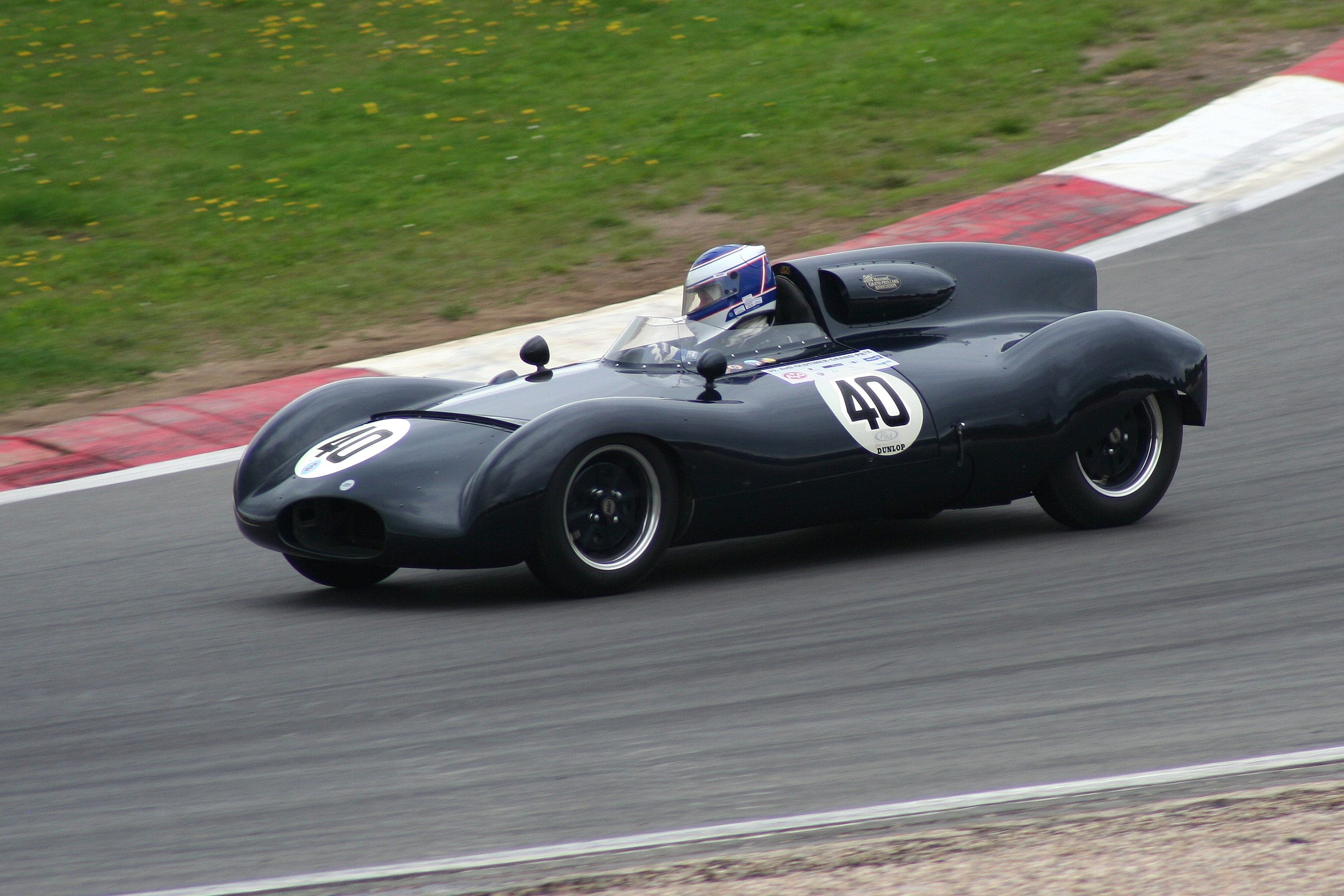 The unique, Formula One-specification, centre-seat, Cooper Bobtail sports car, raced by Jack Brabham in 1955. On demonstration at the Oldtimer Grand Prix at the Nürburgring in 2011.